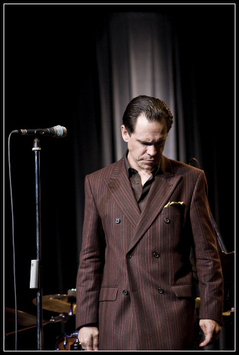 Kurt Elling (born November 2, 1967) is an American jazz vocalist.